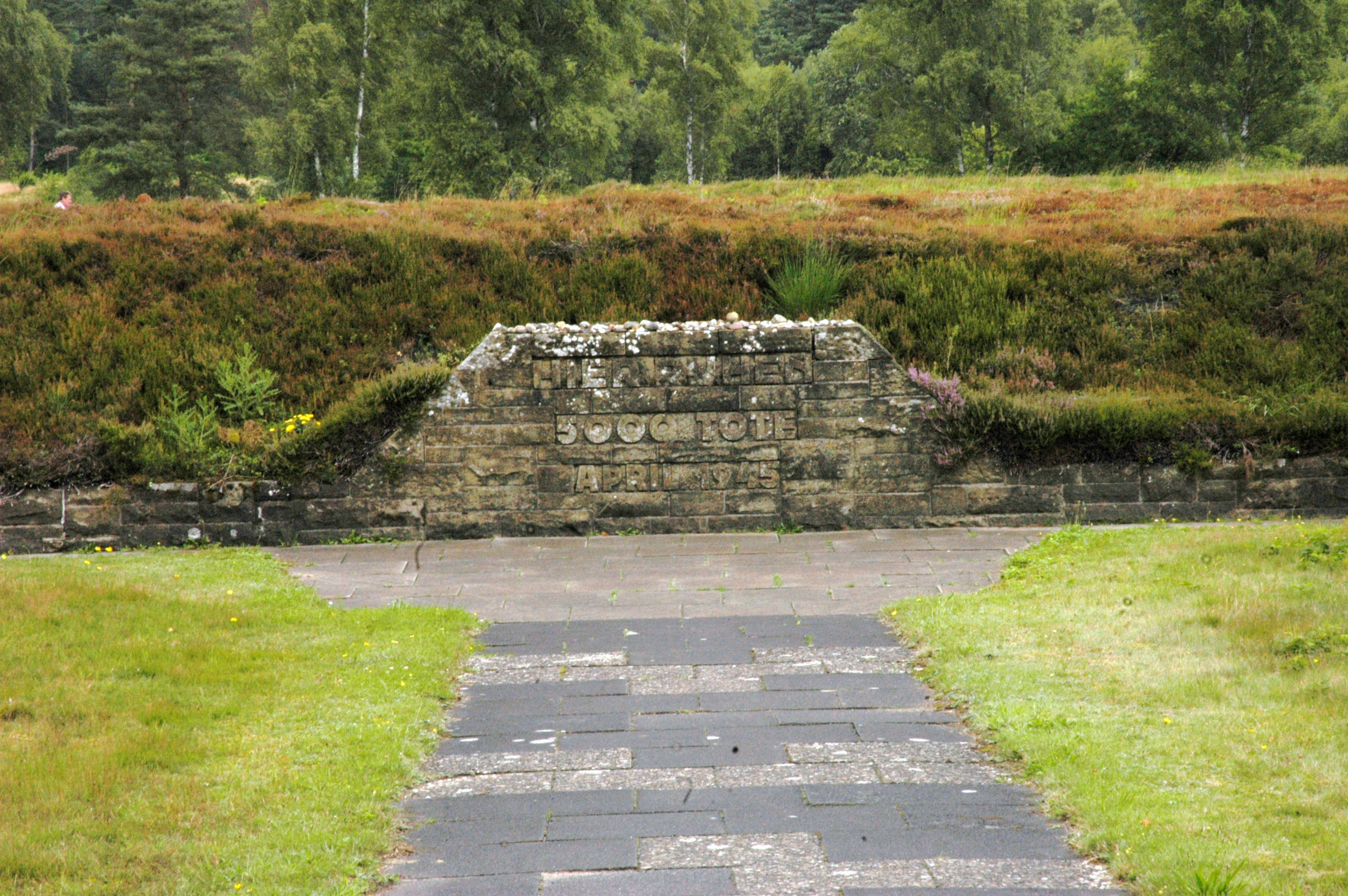 Mass grave for 5000 people in Bergen Belsen Massegrav for 5000 mennesker i Bergen Belsen